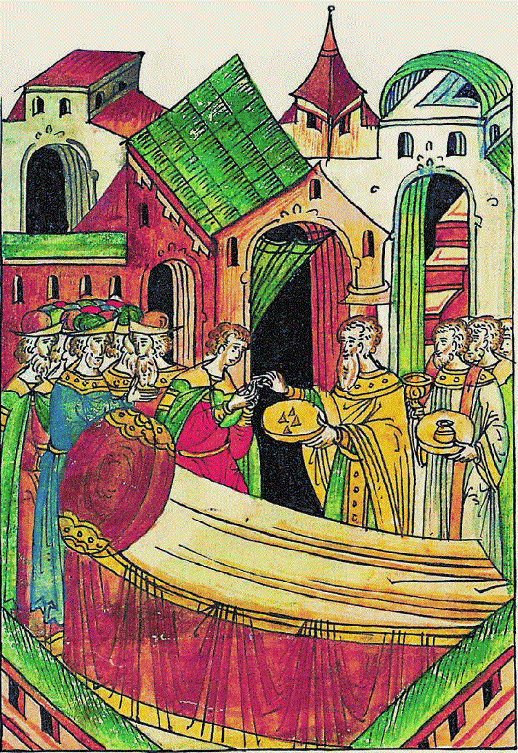 Dmitry Krasny takes the Sacraments in a serious illness.